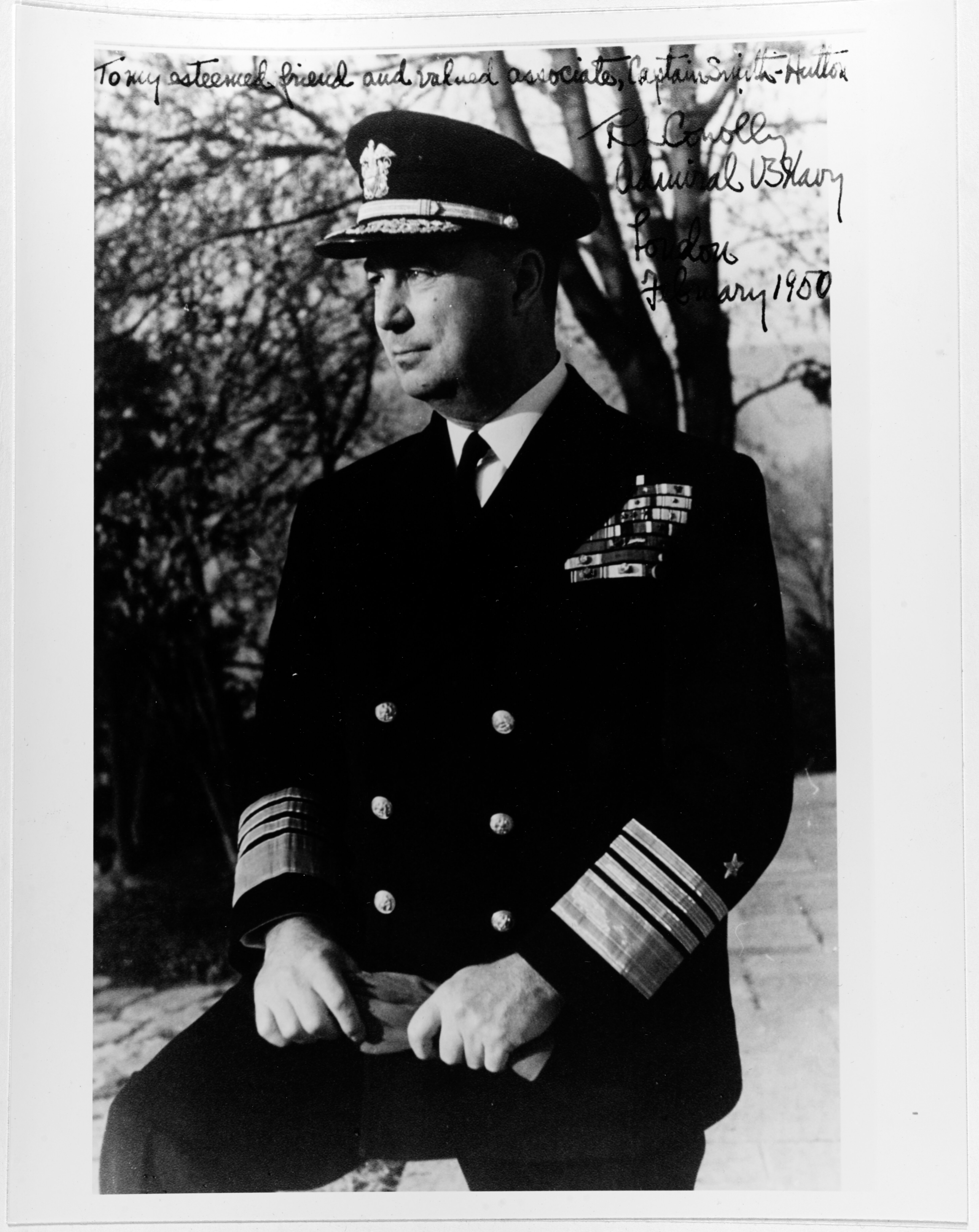 United States Navy Vice Admiral Richard L. Conolly (1892-1962)